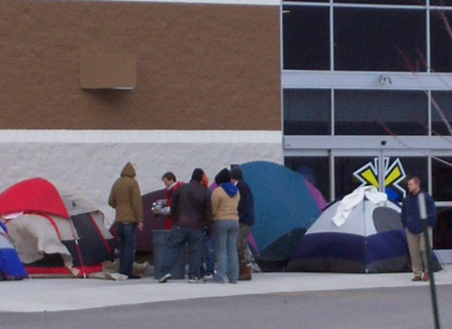 People waiting in line approximately 24 hours before the release of the PlayStation 3. Taken outside the Best Buy store in Appleton, Wisconsin, USA. Temperature was around freezing (32 Fahrenheit, 0 Celsius). I cropped the image. I counted 11 tents total. I later spoke with a worker at the store, who stated that there were 26 Playstation 3 consoles available.